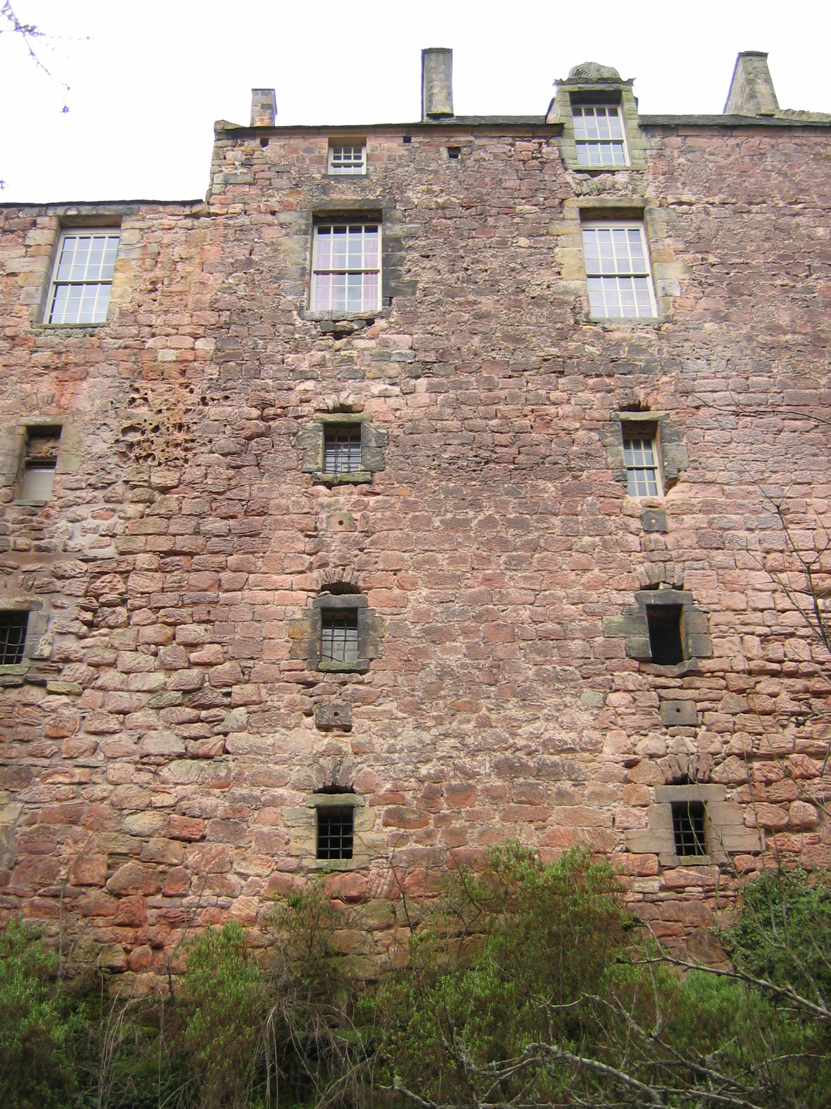 South wall of Roslin Castle, near Edinburgh, Scotland.